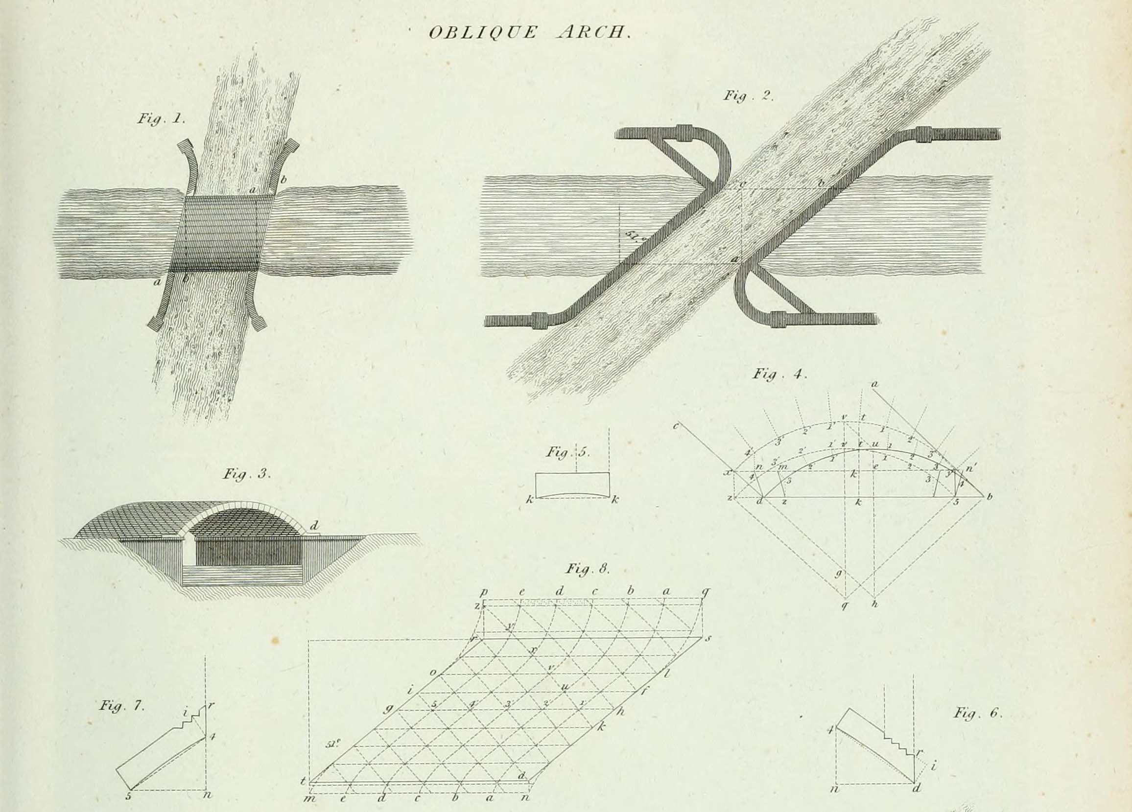 Finlay Bridge on the Kildare Canal. Figures 1-8 of plate XXXIX from the article Oblique Arches in the Rees Cyclopaedia